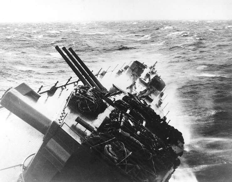 USS Santa Fe (CL-60) rolling about 35 degrees to starboard as she rides out a typhoon encountered in the South China Sea, probably on 18-19 December 1944. Note that her forward 6"47 gun turret is trained to one side to avoid shipping water through its gun ports. The photograph was released for publication on 26 July 1945.